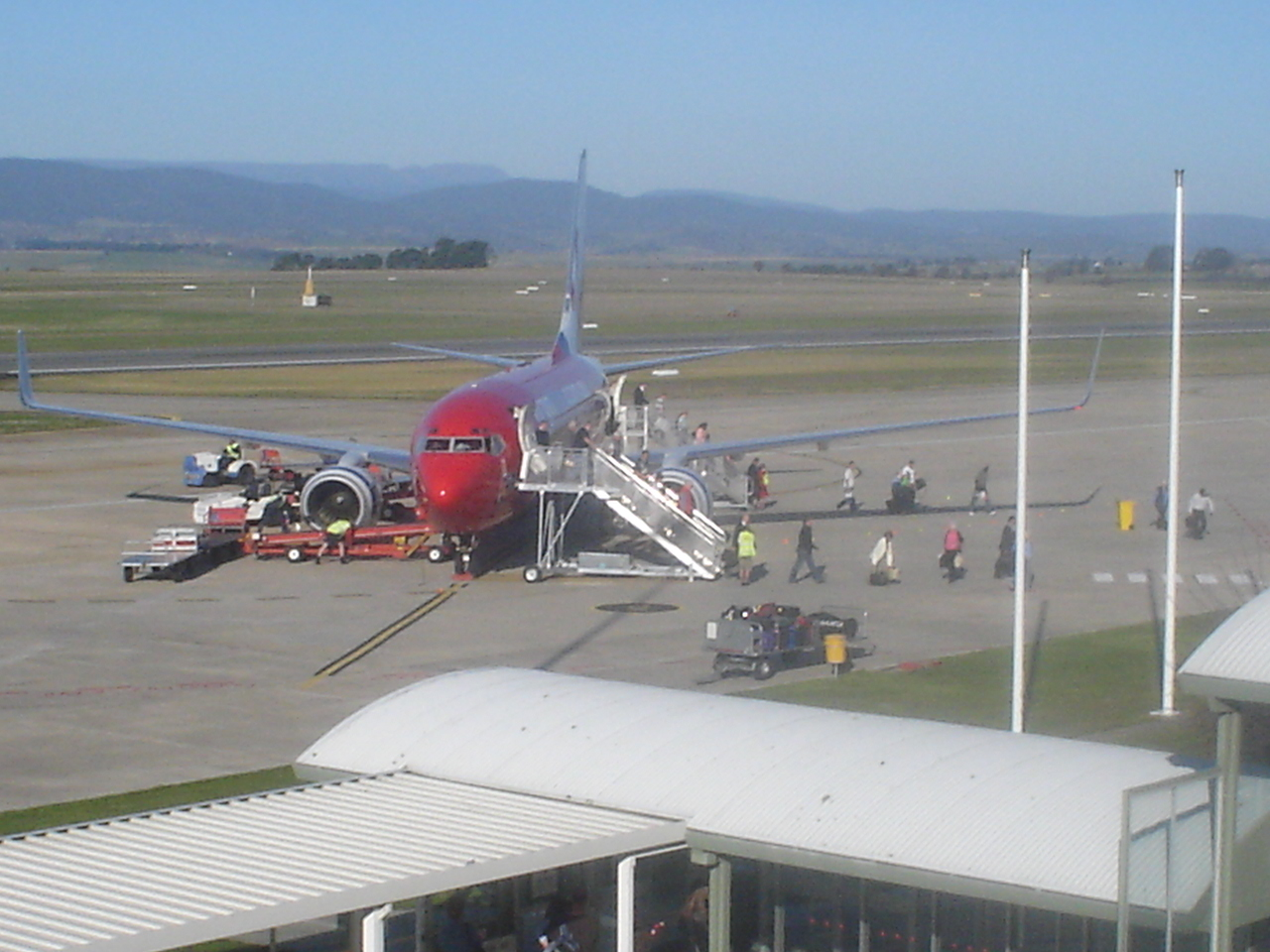 Virgin Blue at Launceston Airport